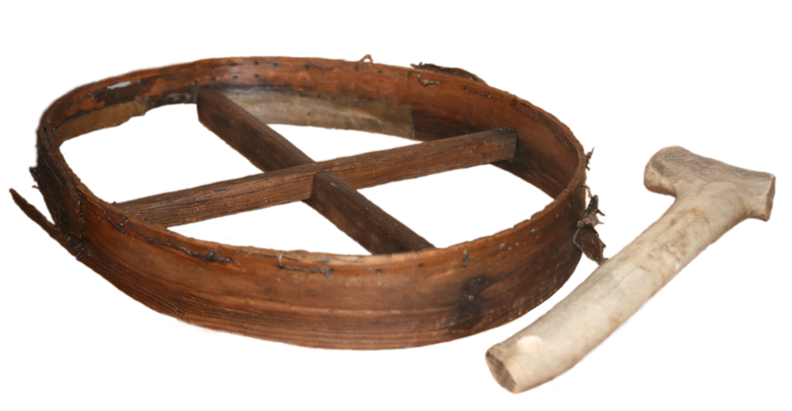 Remains of the sami shamanic drum found in Velfjord, Brønnøy, Nordland, Norway in 1969.